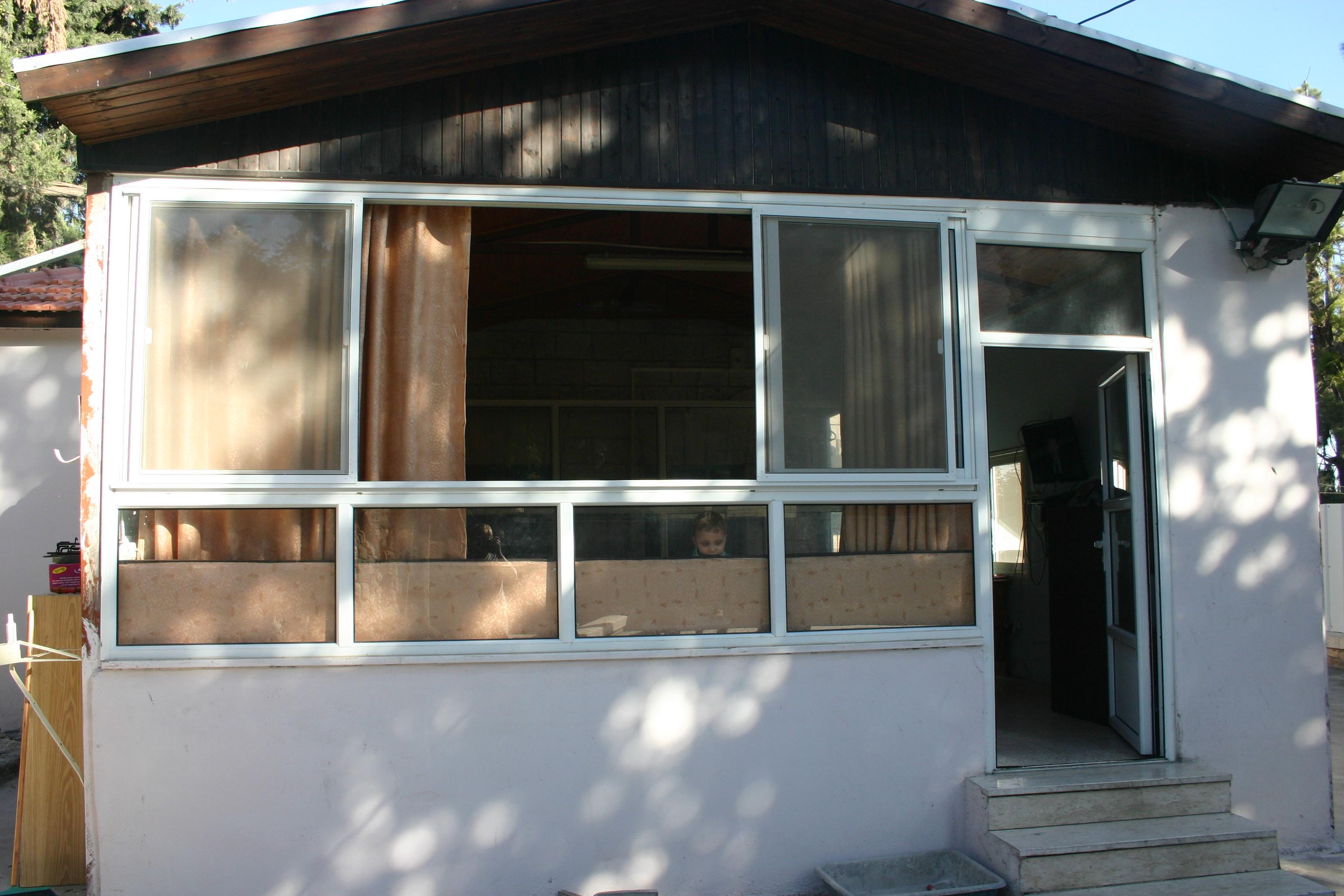 Fire station in al-Birah